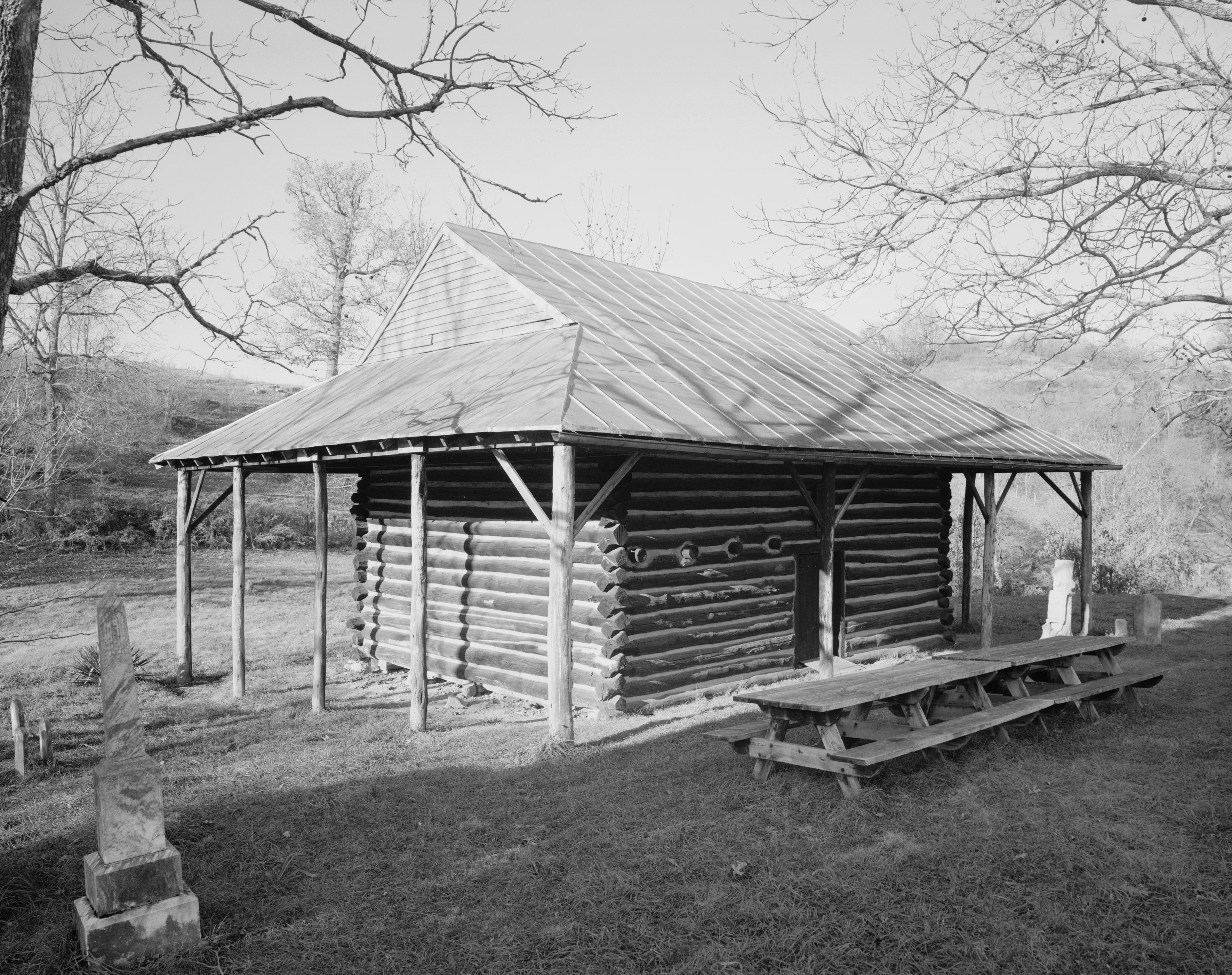 Exterior of Rehoboth Church, located east of Union in Monroe County, West Virginia, United States. Built in 1786 as the first Methodist church in what is today West Virginia, it was the center of Methodism in the region for many years. Today, the church is listed on the National Register of Historic Places.